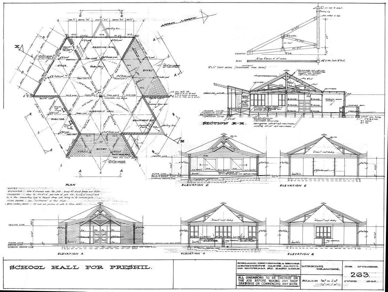 Preshil Hall Four